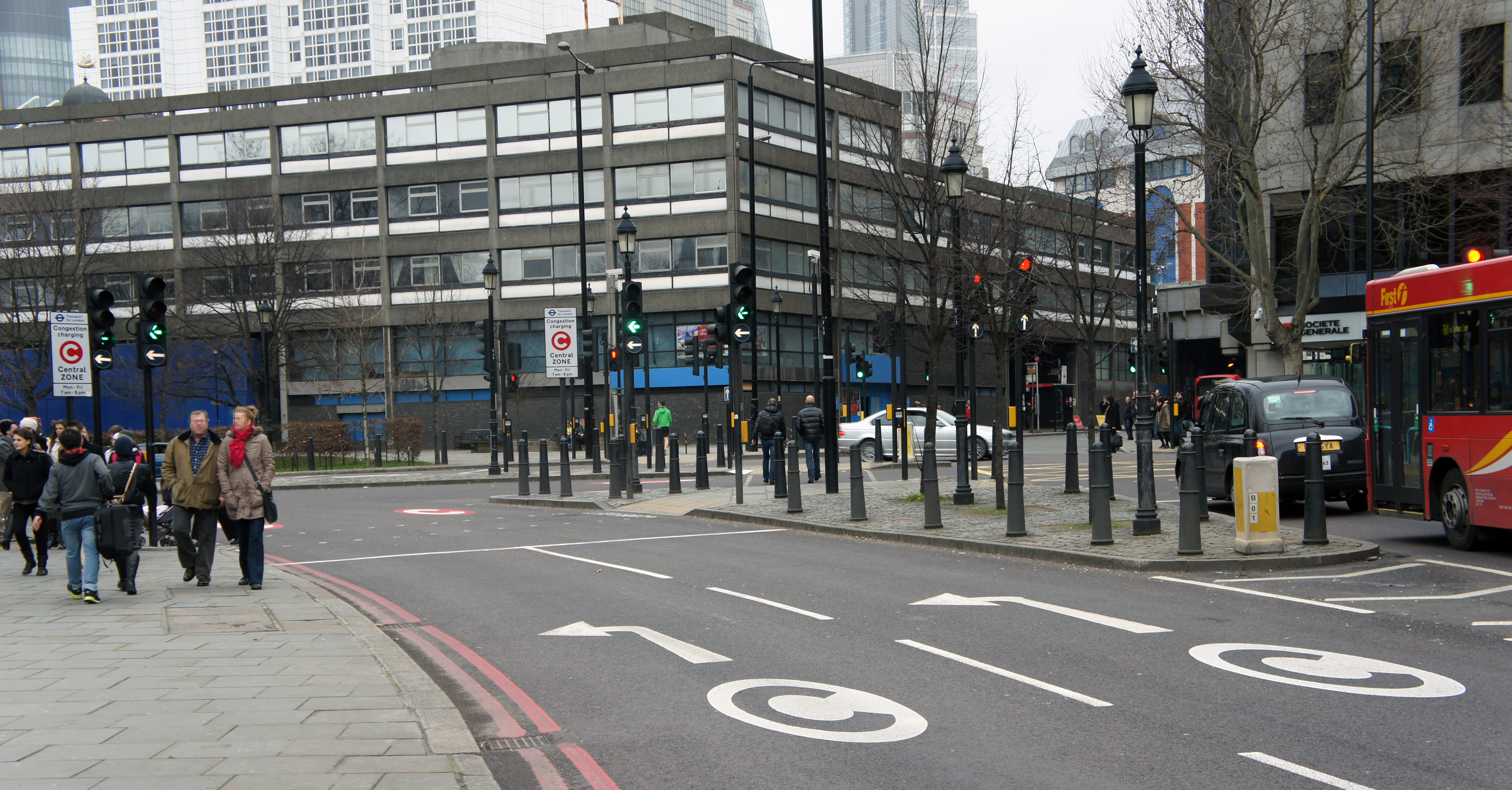 Vertical and horizontal signs at the Tower Hill (A100) entrance of the London Congestion Charge Zone